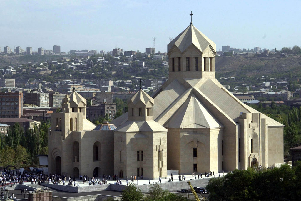 General view of Saint Gregory the Illuminator's Cathedral in Yerevan.